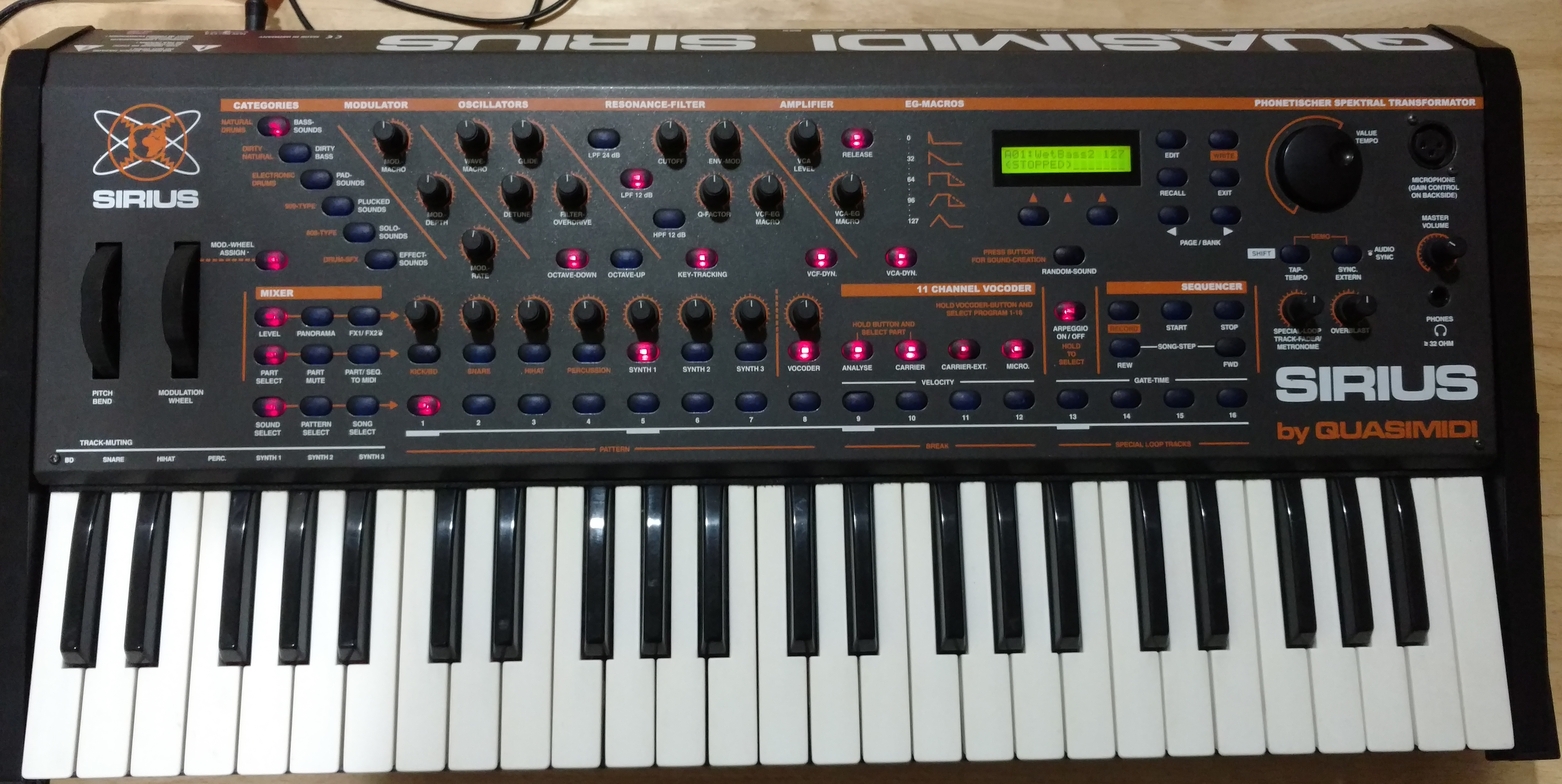 photo by listenForward